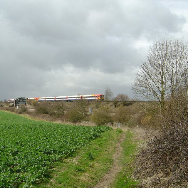 Battledown Flyover